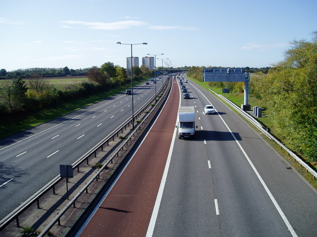 M4 Bus Lane from Osterley Lane bridge, near to Norwood Green, Ealing, Great Britain. Strange how you hardly ever see a bus on this bus lane (just loads of cabs ferrying businessmen from Heathrow airport into London) - A telling example of Deputy Prime Minister, John Prescott's lack of vision.